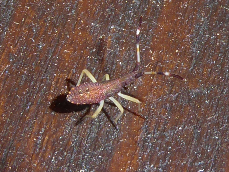 Instar of Dicranocephalus sp. photographed in Piazzo (Segonzano, Trentino, Italy)